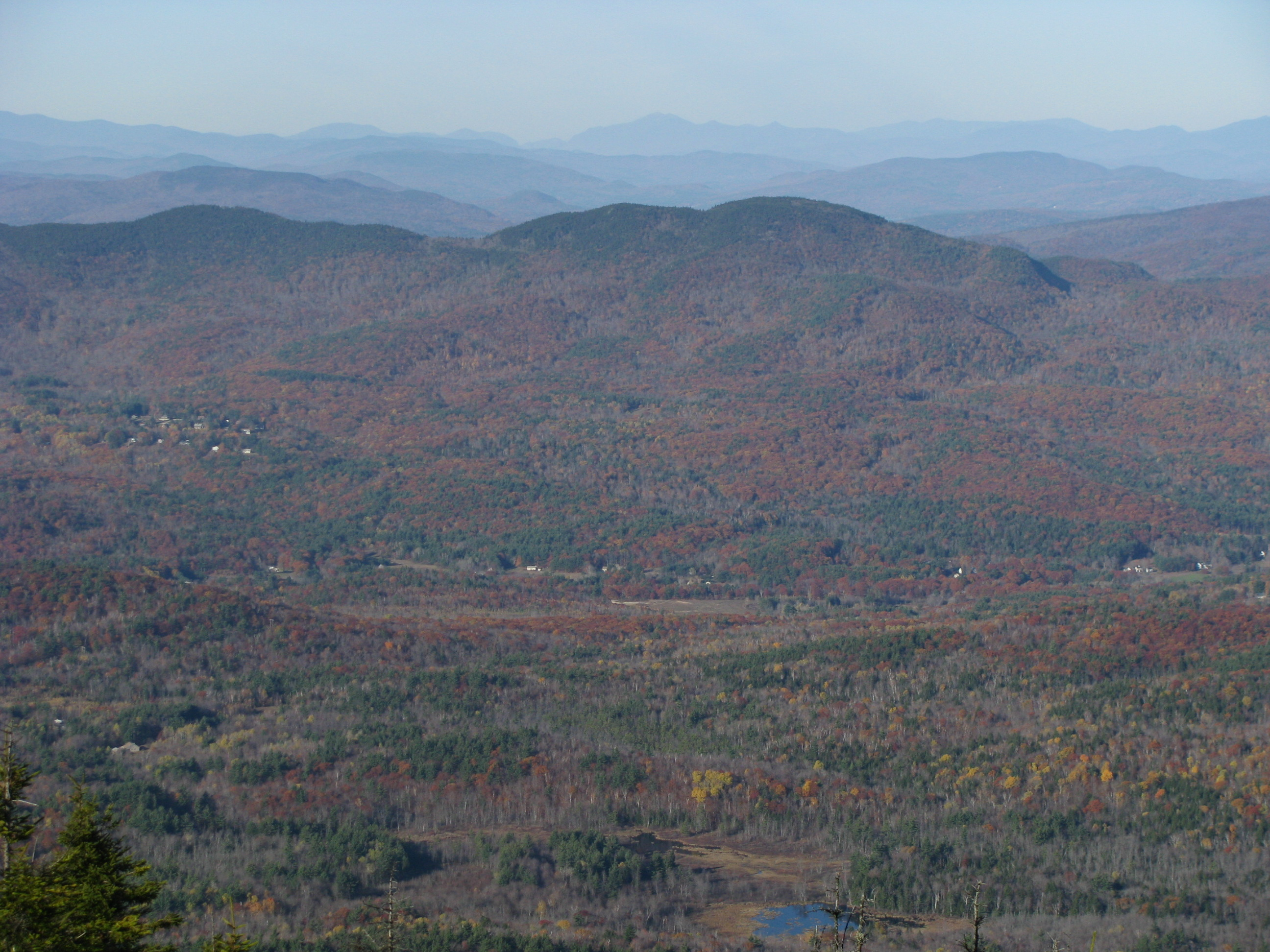 This is a view of the south side of Ragged Mountain in Merrimack County, New Hampshire. The picture was taken October 26, 2008 from the north side of Mount Kearsarge. Mount Lafayette is visible in the background.